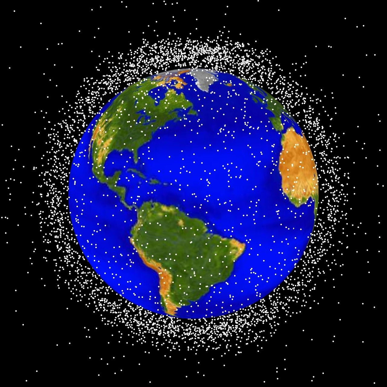 debris plot by NASA The following graphics are computer generated images of objects in Earth orbit that are currently being tracked. Approximately 95% of the objects in this illustration are orbital debris, i.e., not functional satellites. The dots represent the current location of each item. The orbital debris dots are scaled according to the image size of the graphic to optimize their visibility and are not scaled to Earth. These images provide a good visualization of where the greatest orbital debris populations exist. Below are the graphics generated from different observation points. LEO stands for low Earth orbit and is the region of space within 2,000 km of the Earth's surface. It is the most concentrated area for orbital debris.